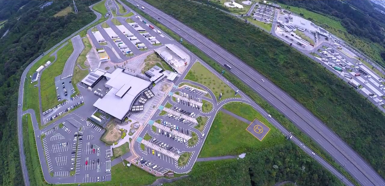 Aerial view of Hamamatsu Service Area (inbound) of the Shin-Tomei Expressway in Hamamatsu, Shizuoka Prefecture, Japan.